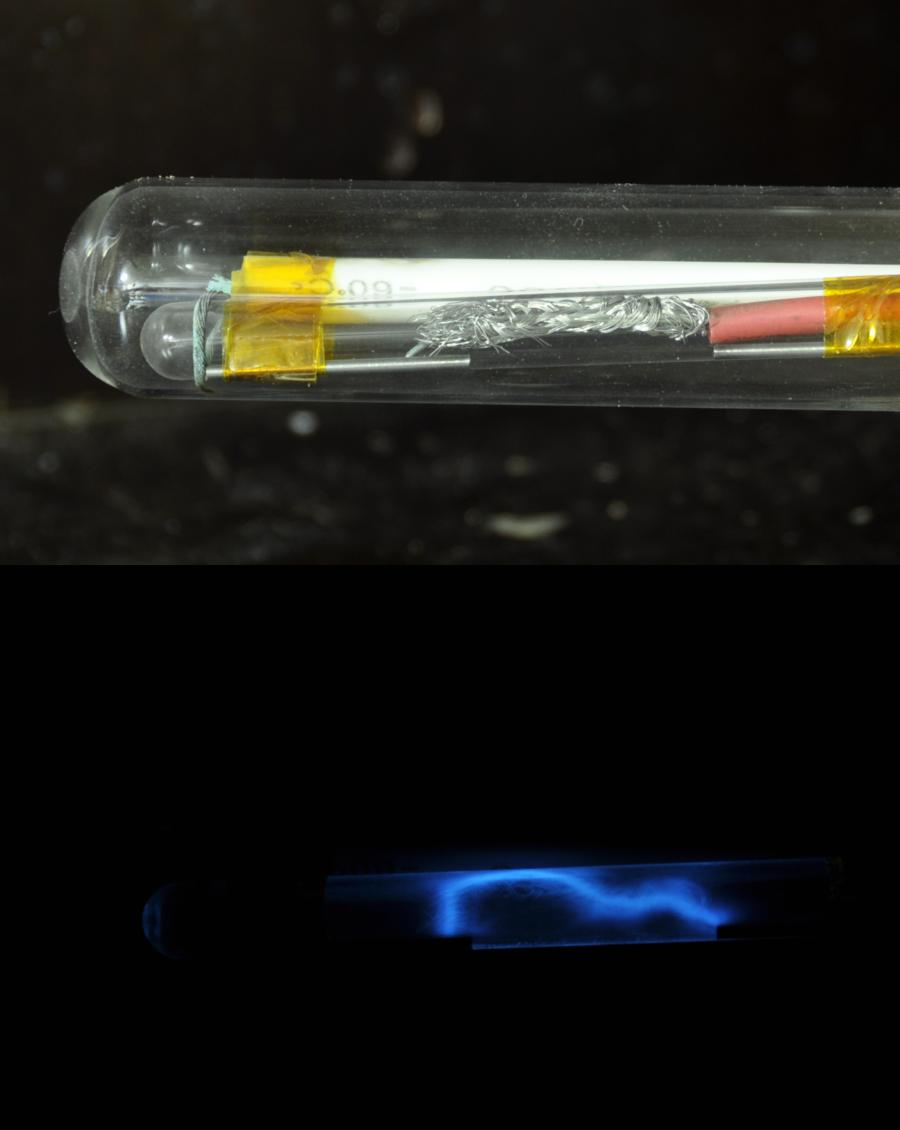 Air-gap flash in ambient light and in the dark after a flash occured, clearly showing the blue phosphorescence of the quartz ignition tube.